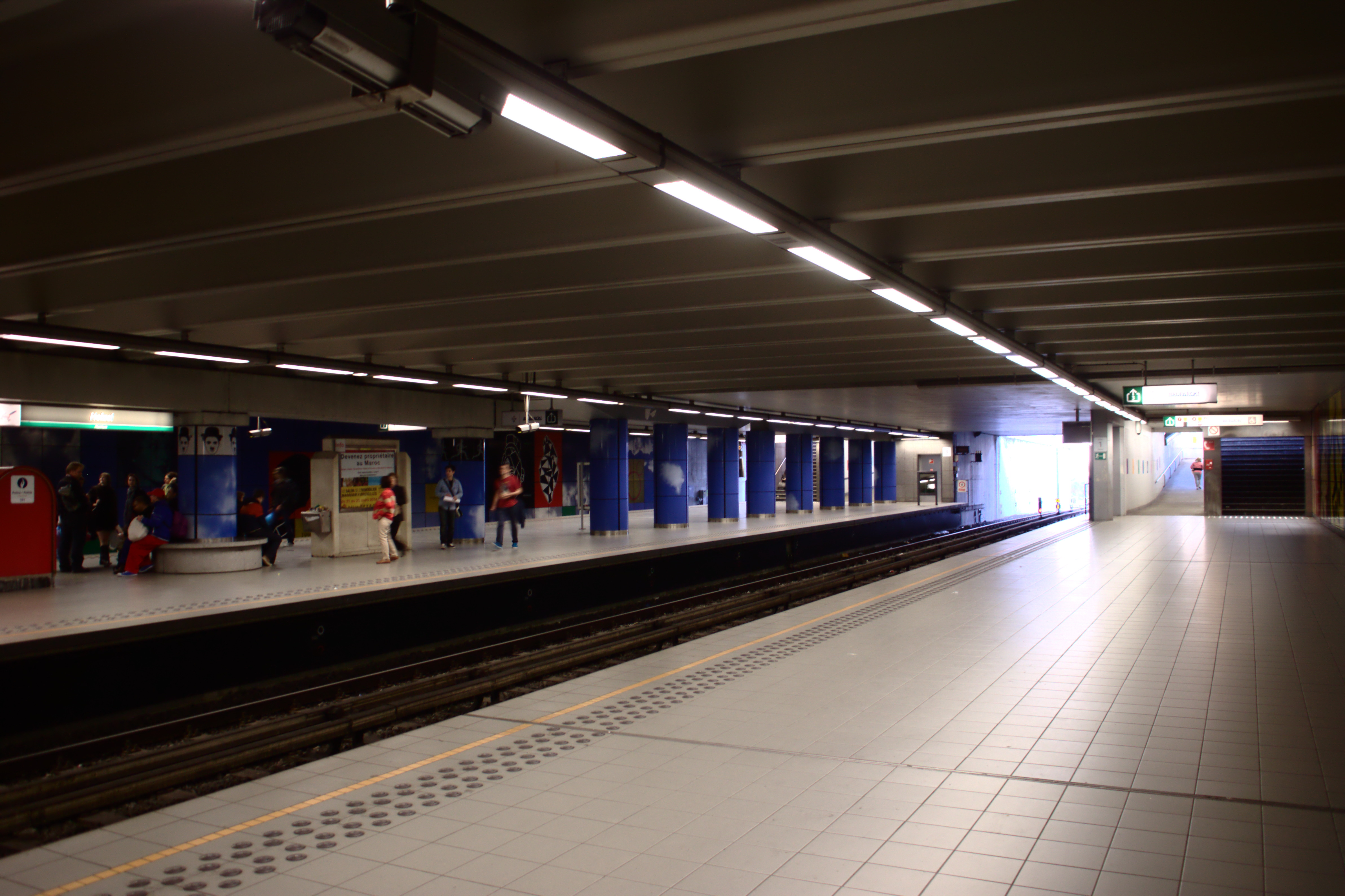 Metro station Heysel-Heizel, Brussels, Belgium